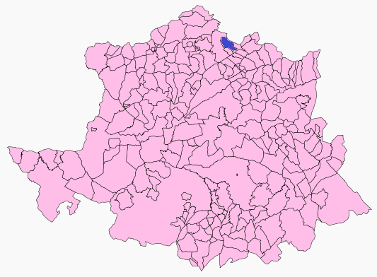 Abadía